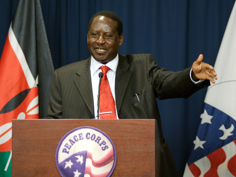 Raila Odinga - Prime Minister of Kenya speaking at visit to Peace Corps